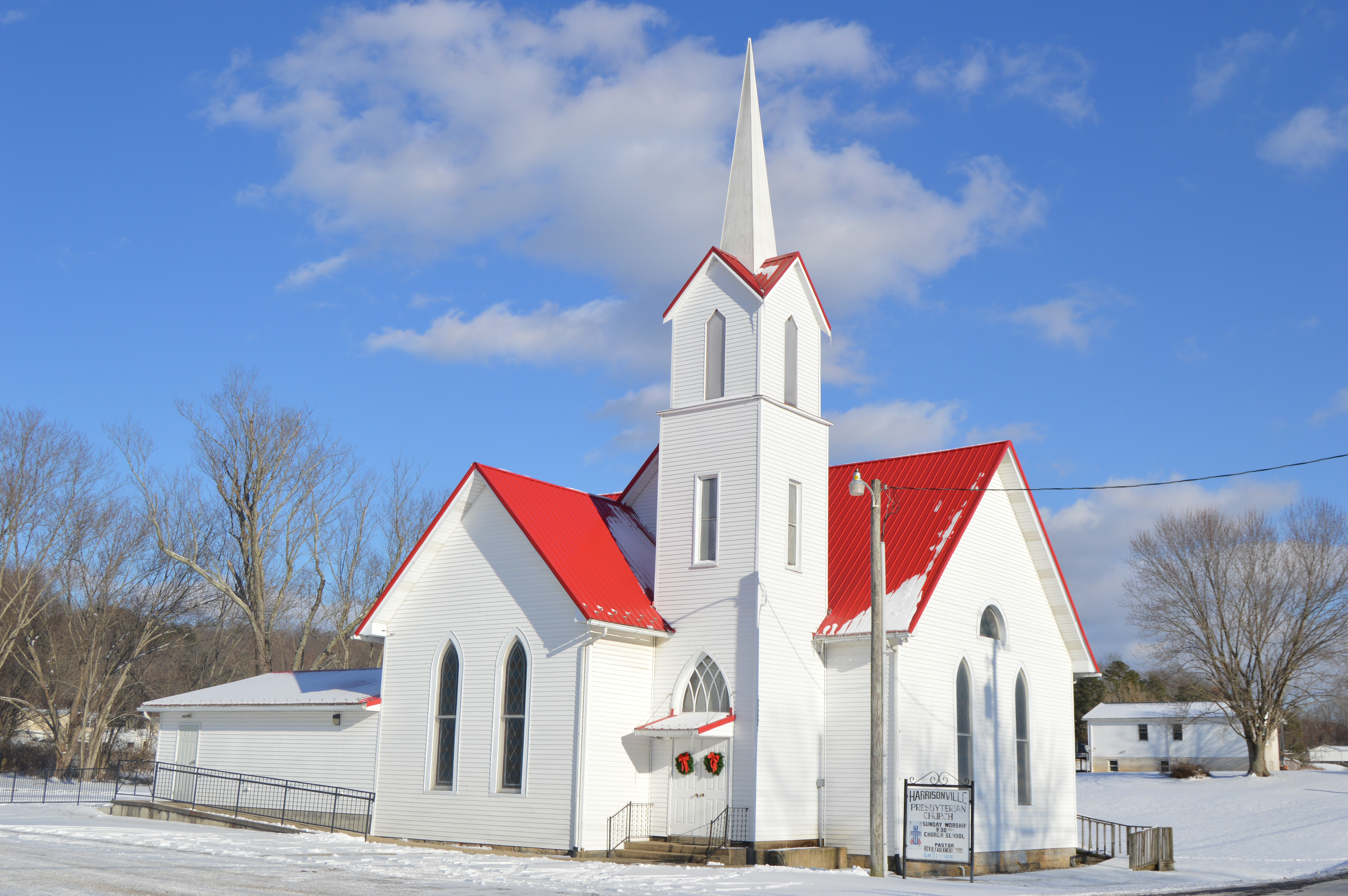 Front and western side of the Harrisonville Presbyterian Church, located on State Route 143 at Harrisonville in Scipio Township, Meigs County, Ohio, United States.